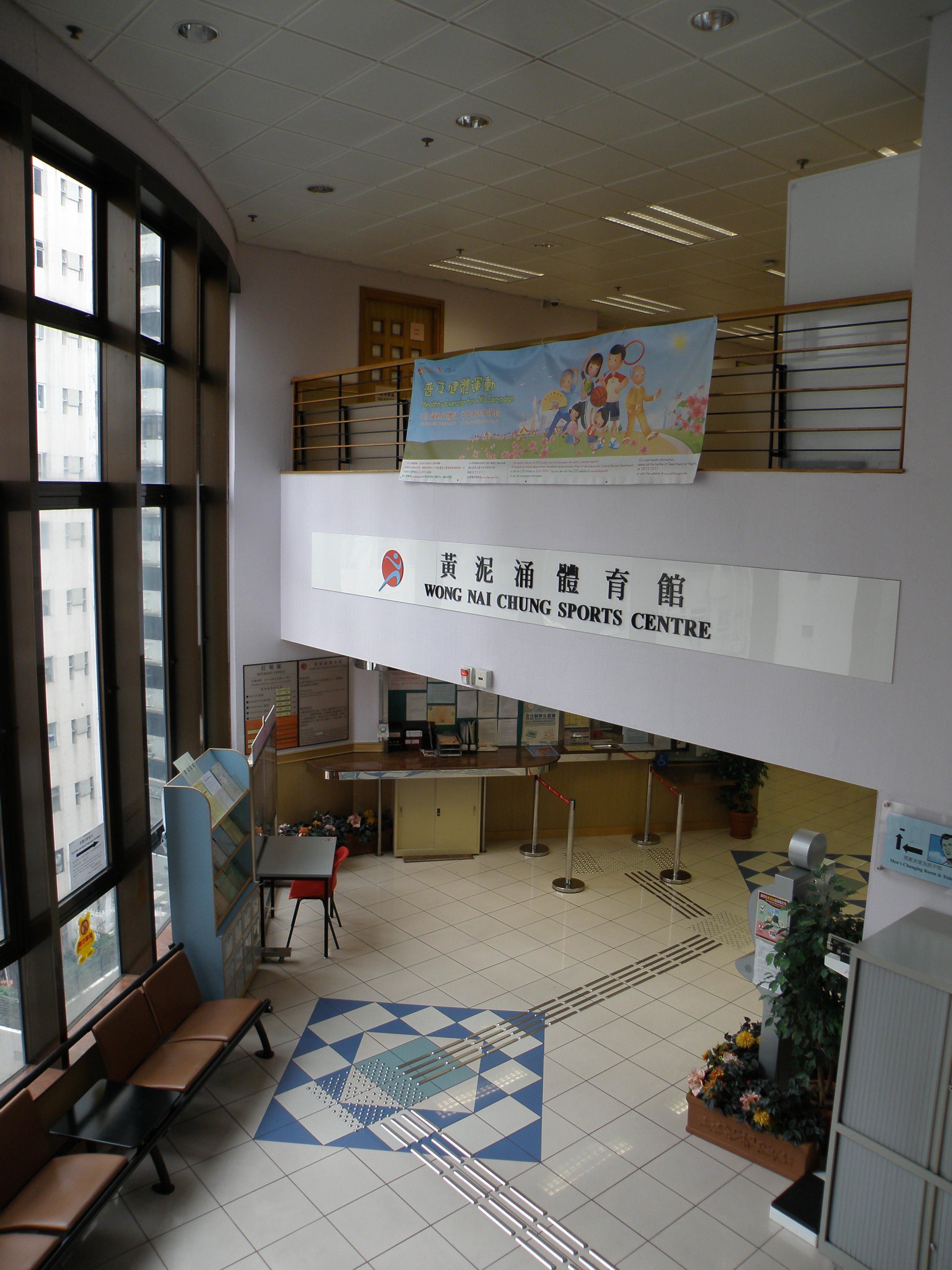 Wong Nai Chung Sports Centre in Happy Valley, Hong Kong.